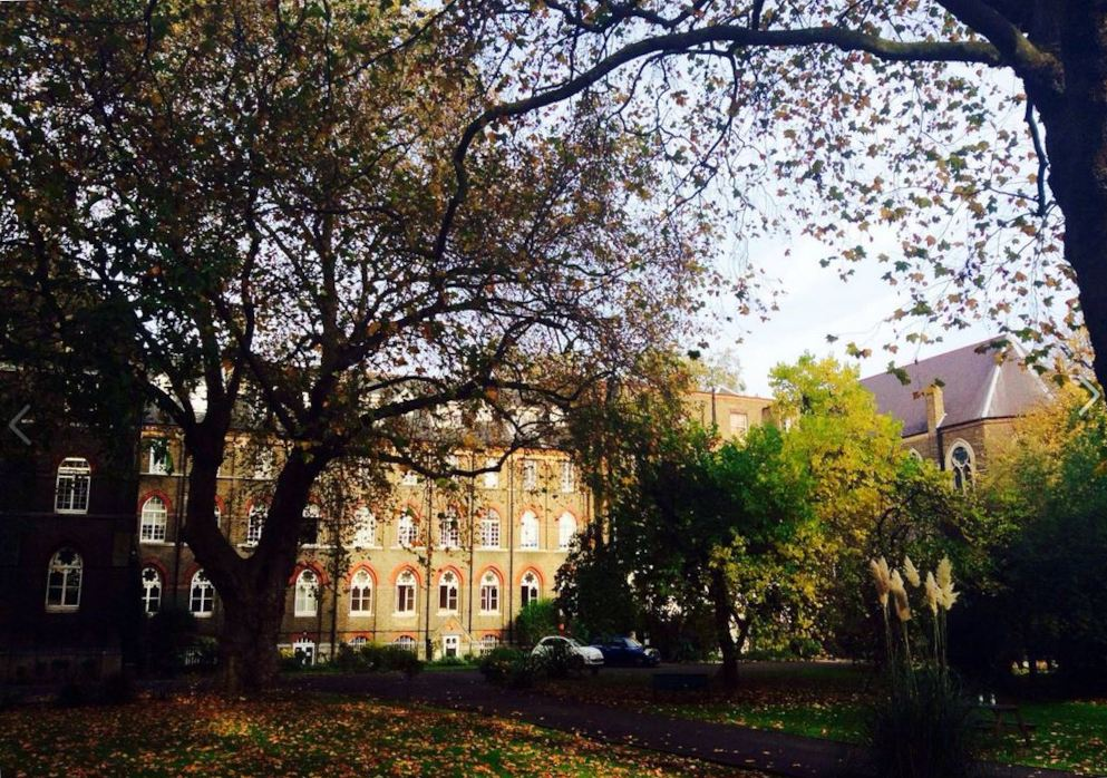 Heythrop College back gardens and campus